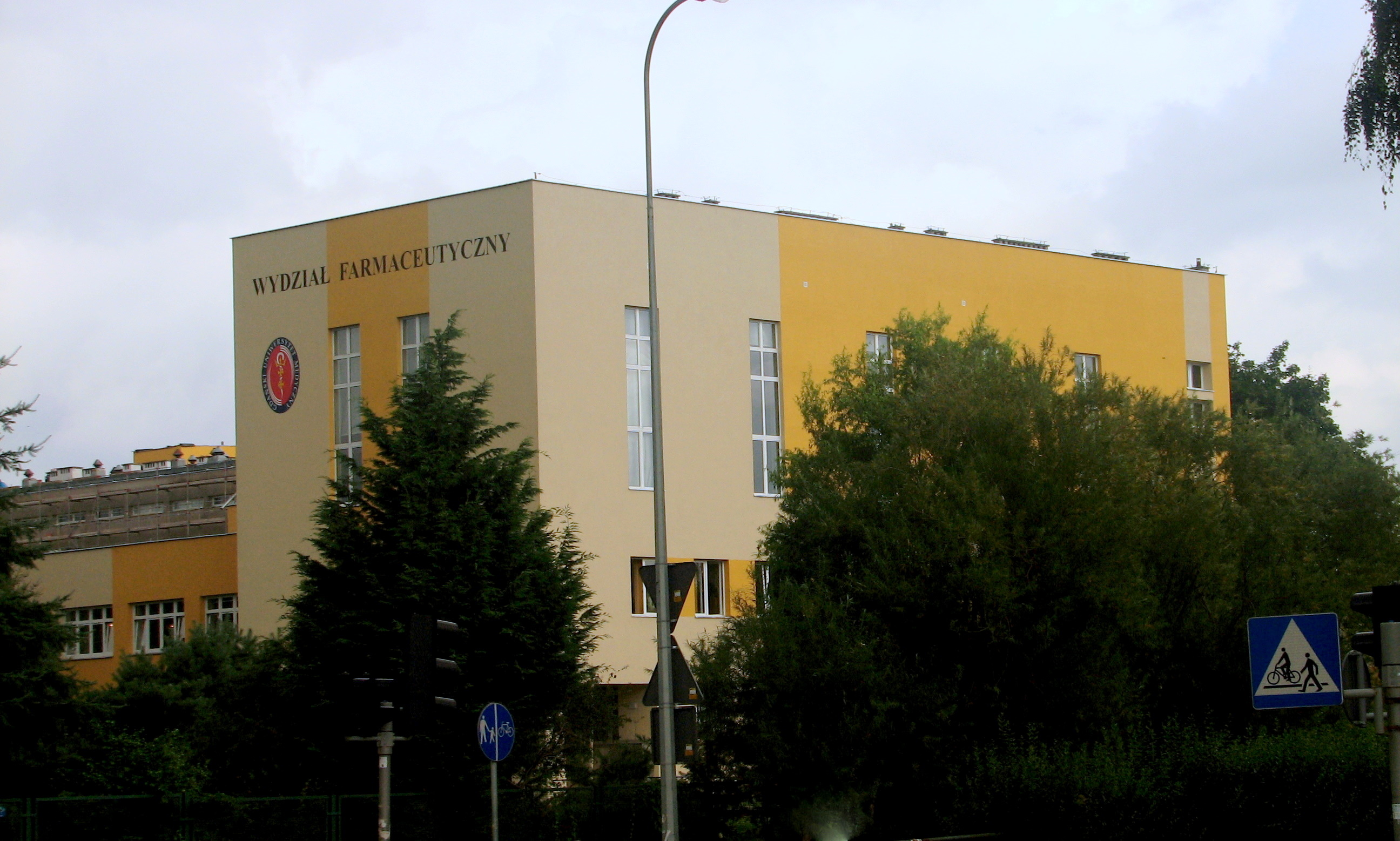 Faculty of Pharmacy of Gdańsk Medical University.